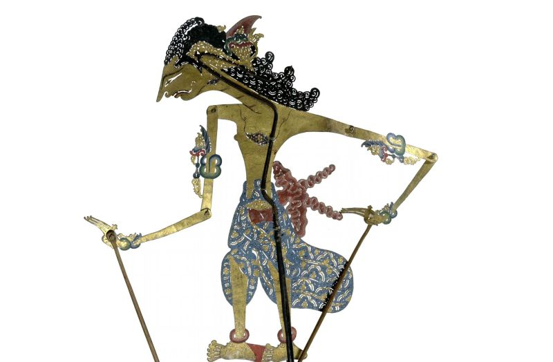 Shadow puppet representing Pariksit